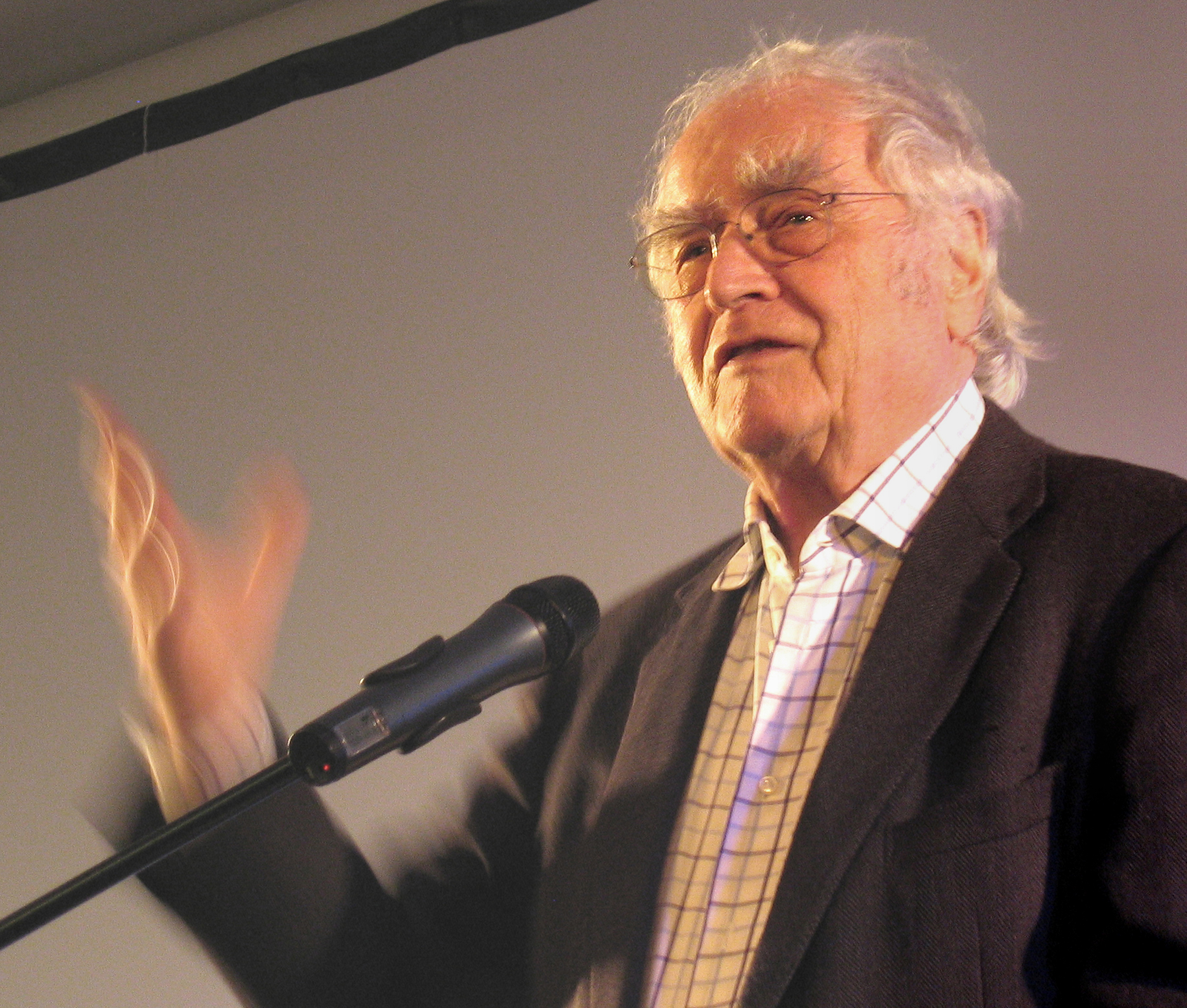 German writer Martin Walser during a book presentation in Aachen, Germany